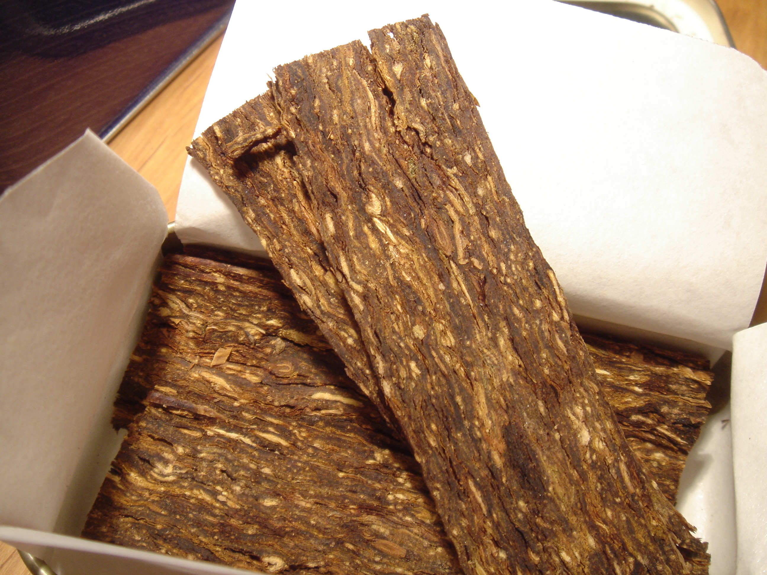 Dunhill Light Flake Tobacco